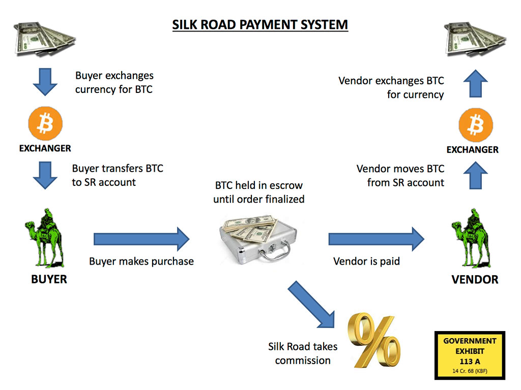 Evidence entered into the record of Ross Ulbricht's Federal trial in the U.S. Southern District Court of New York, depicting a flowchart of Silk Road's payment system, as envisioned by the U.S. Government.